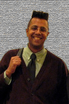 Simon Singh at TAM8